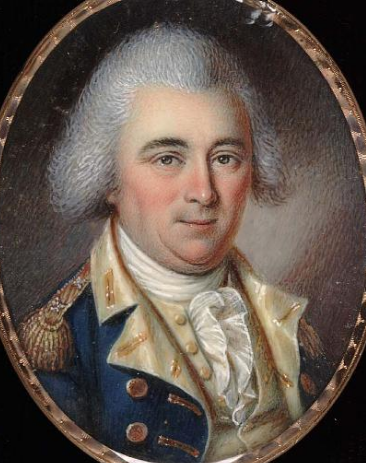 Major-General Anthony Wayne